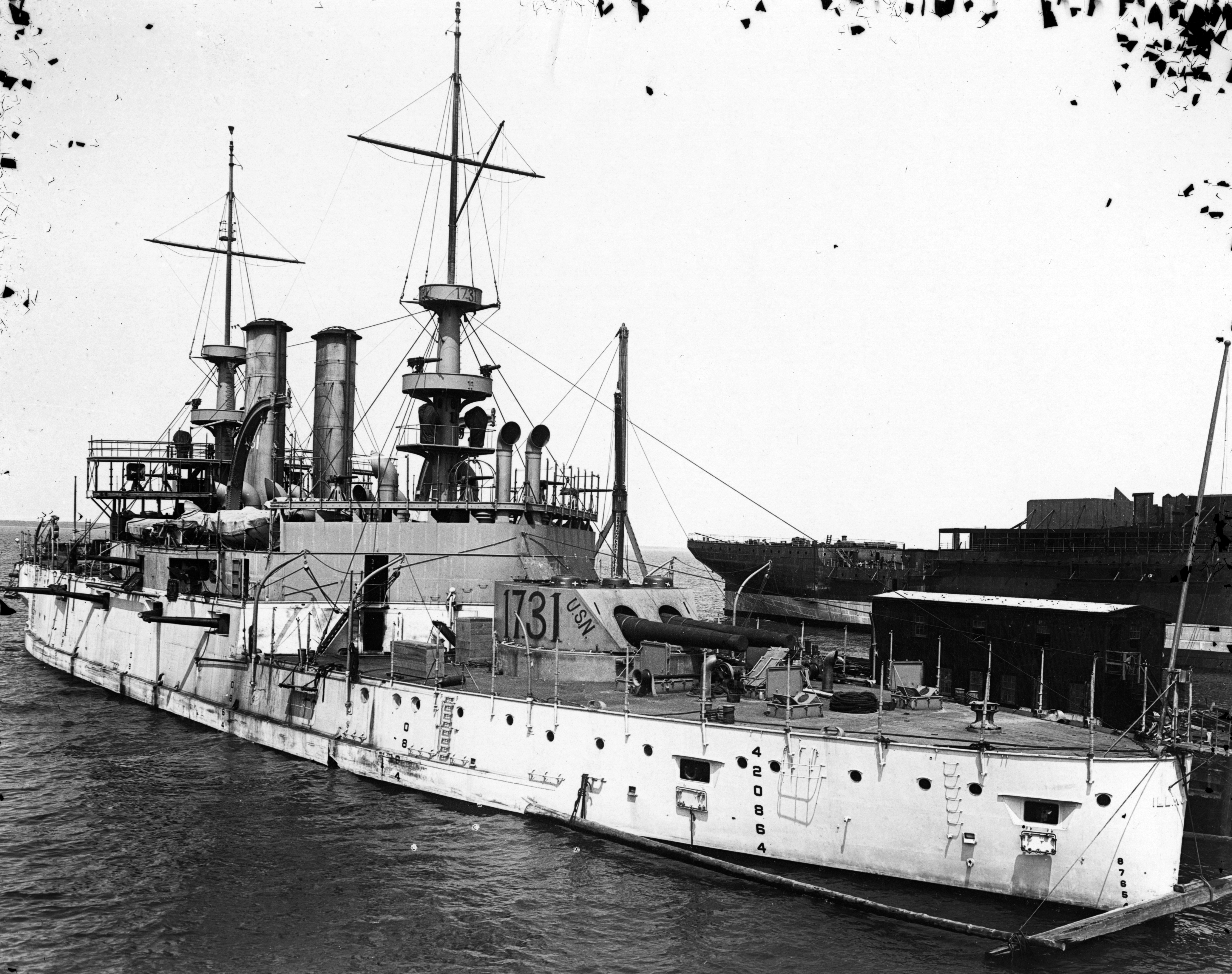 (Battleship # 7) Fitting out at the Newport News Shipbuilding and Dry Dock Company shipyard, Newport News, Virginia, circa 1901, soon after she ran her trials. The number 17.31 painted on her after turret proclaims the speed achieved on the trial run. Note the numbers on her hull side, and the broom lashed to her foremast peak. Photograph from the Bureau of Ships Collection in the U.S. National Archives.